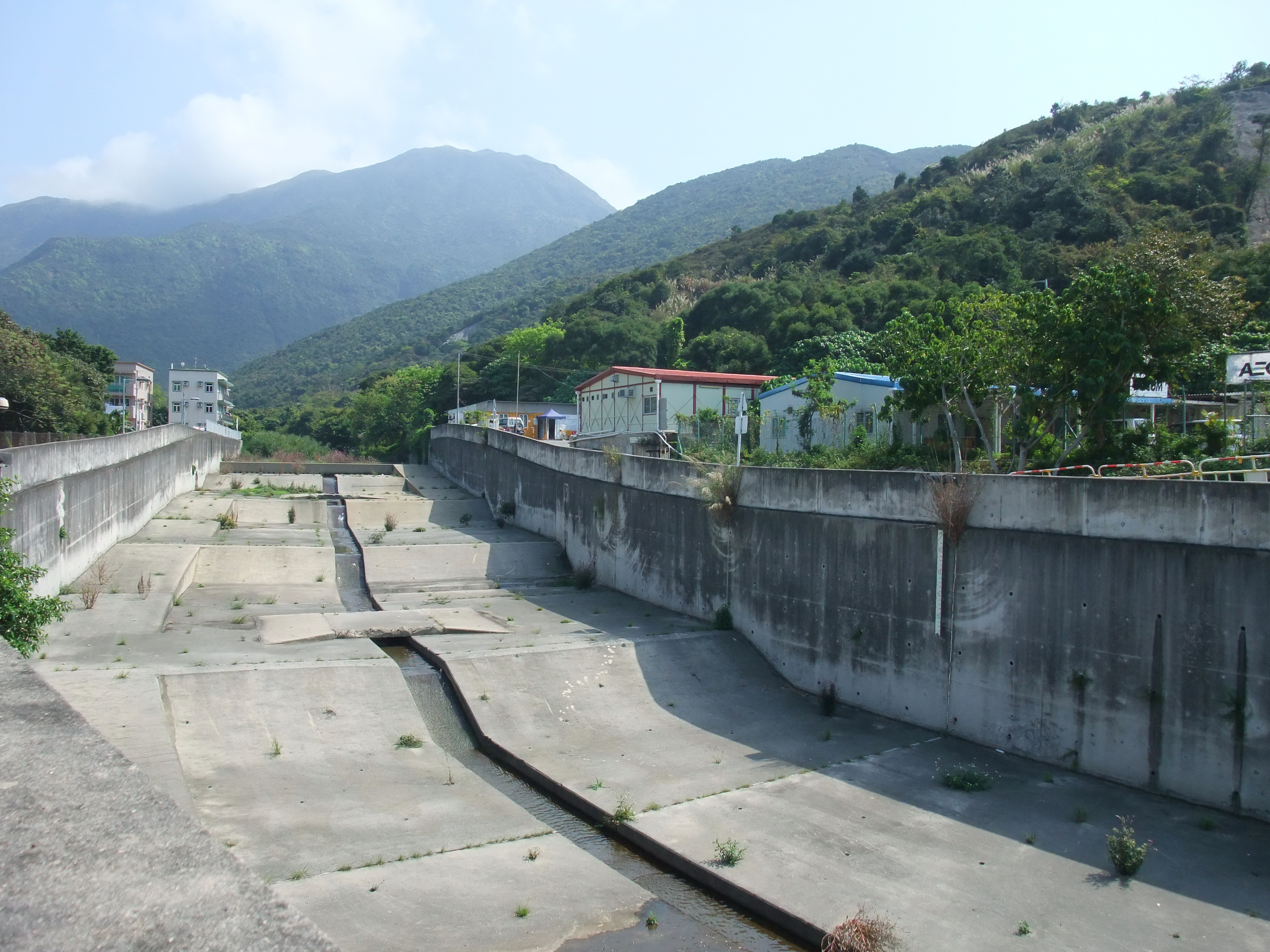 Wong Lung Hang nullah, Tung Chung, New Territories, Hong Kong.